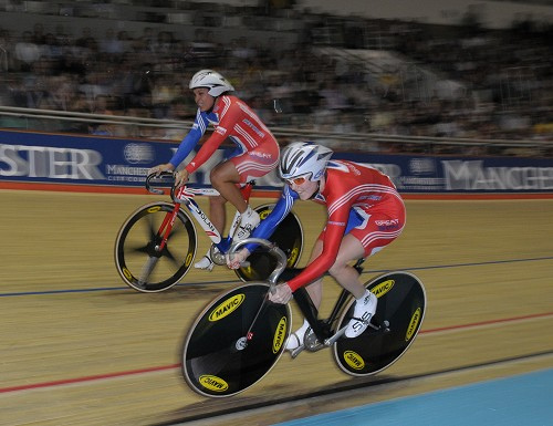 Track cyclists Shanaze Reade and Victoria Pendleton in April 2008